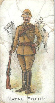 Cigarette card of an officer of the Natal Police - Wills's Cigarettes - Police of the World Series (1910)